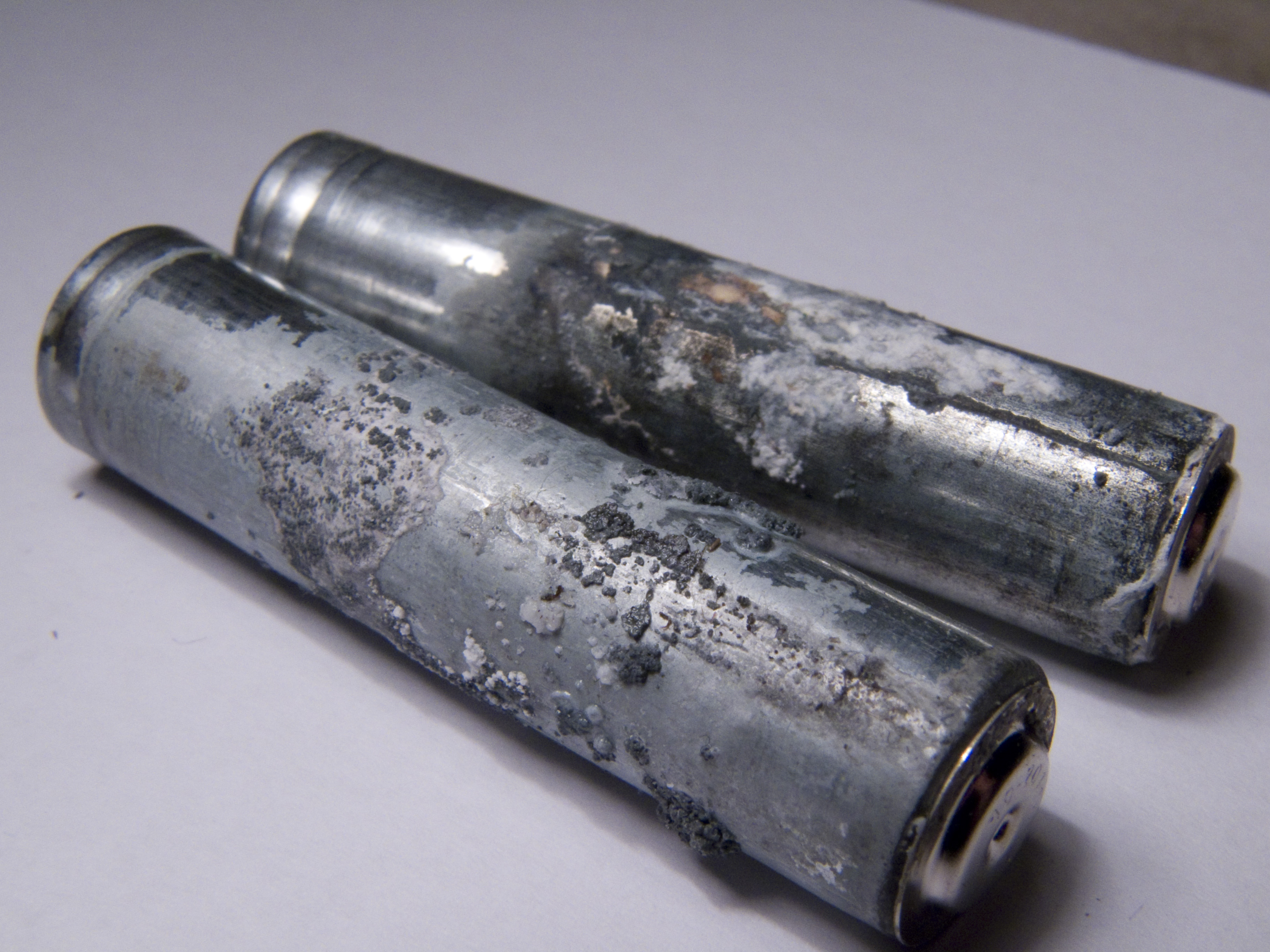 Corroded (leaked) zinc-carbon cell.